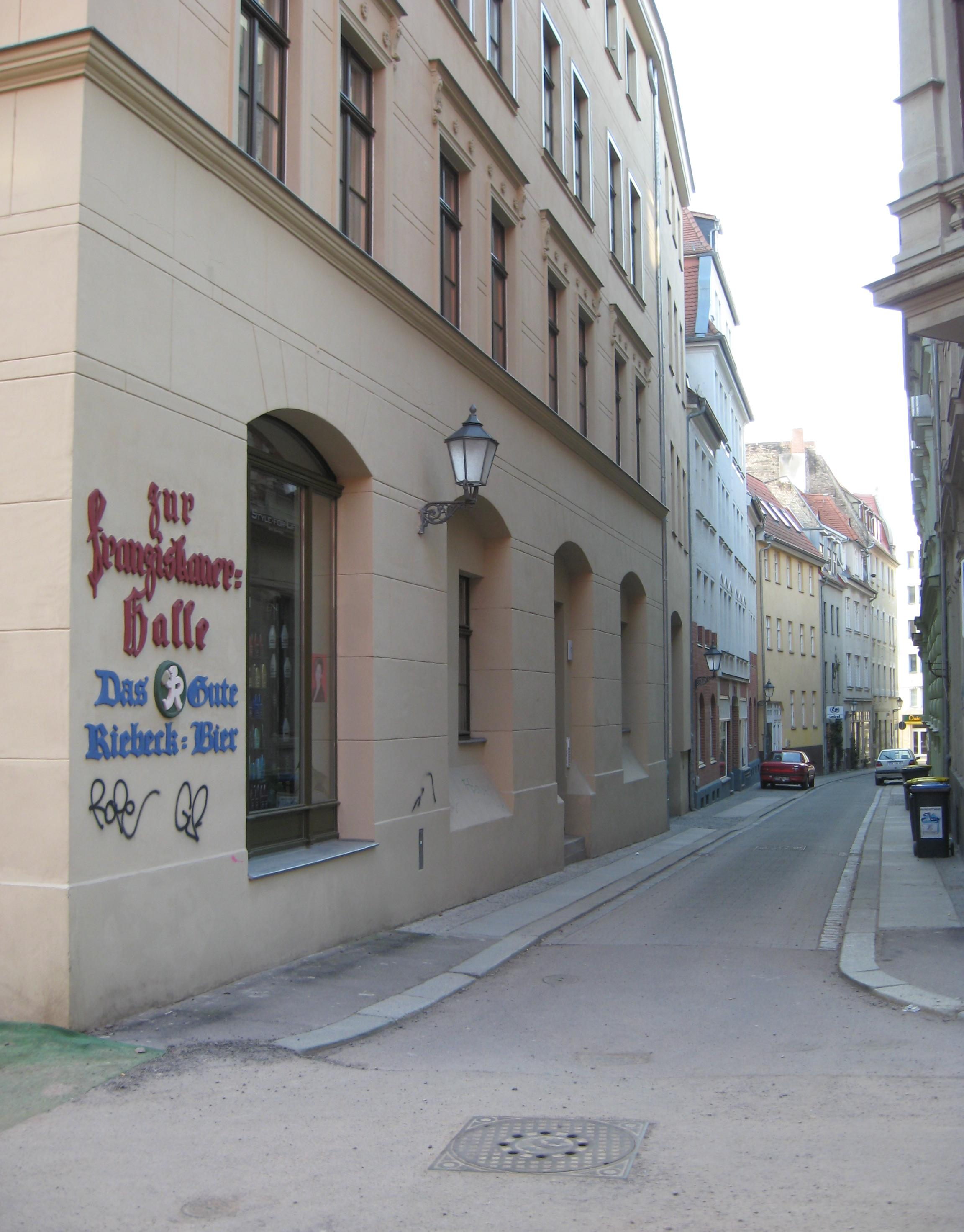 View on the Kuhgasse (cow lane) from the Große Märkerstraße in Halle (Saale) - OpenStreetMap(Info)